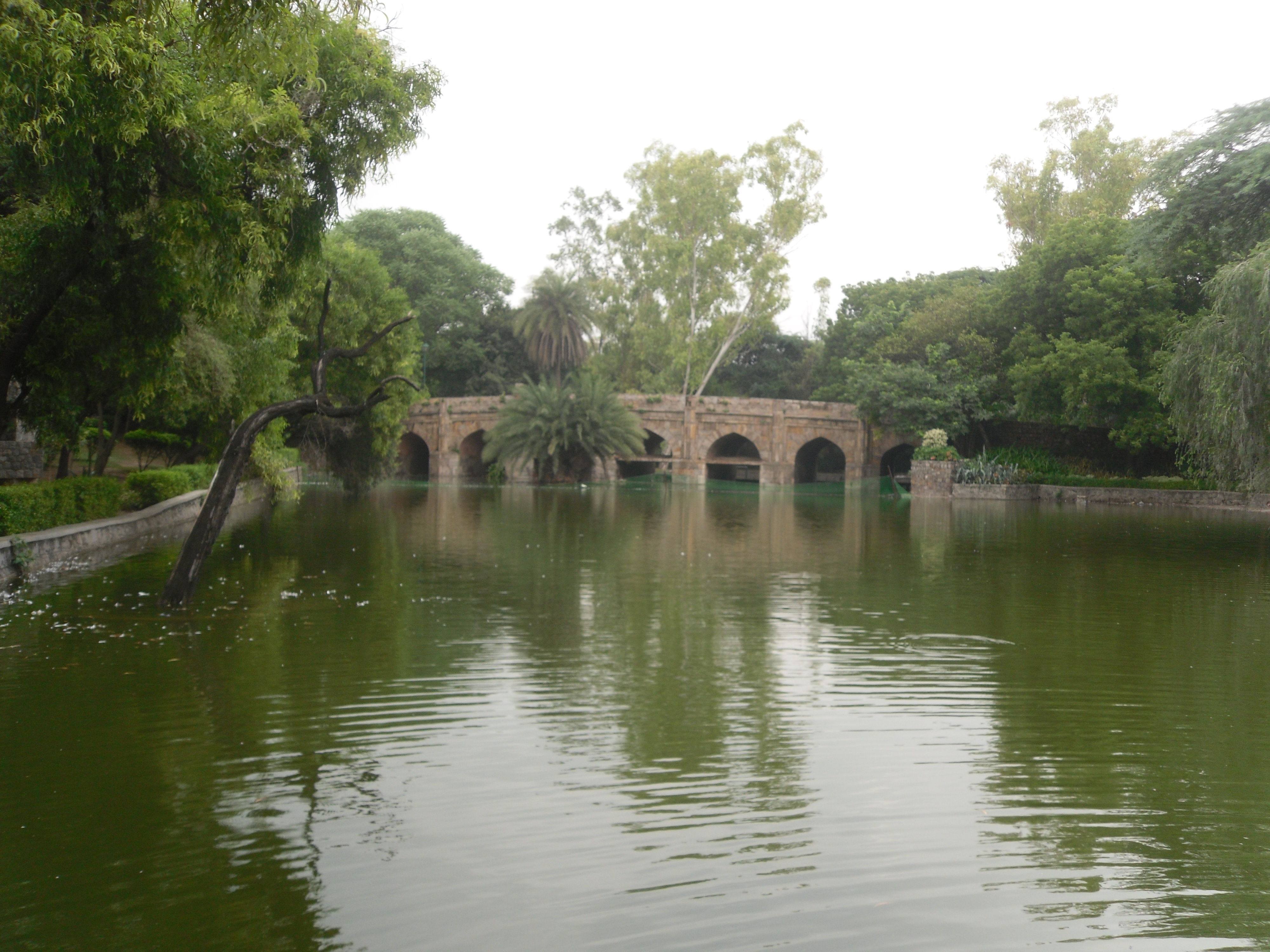 Old Lodhi Bridge near the tomb of Sikander Lodi